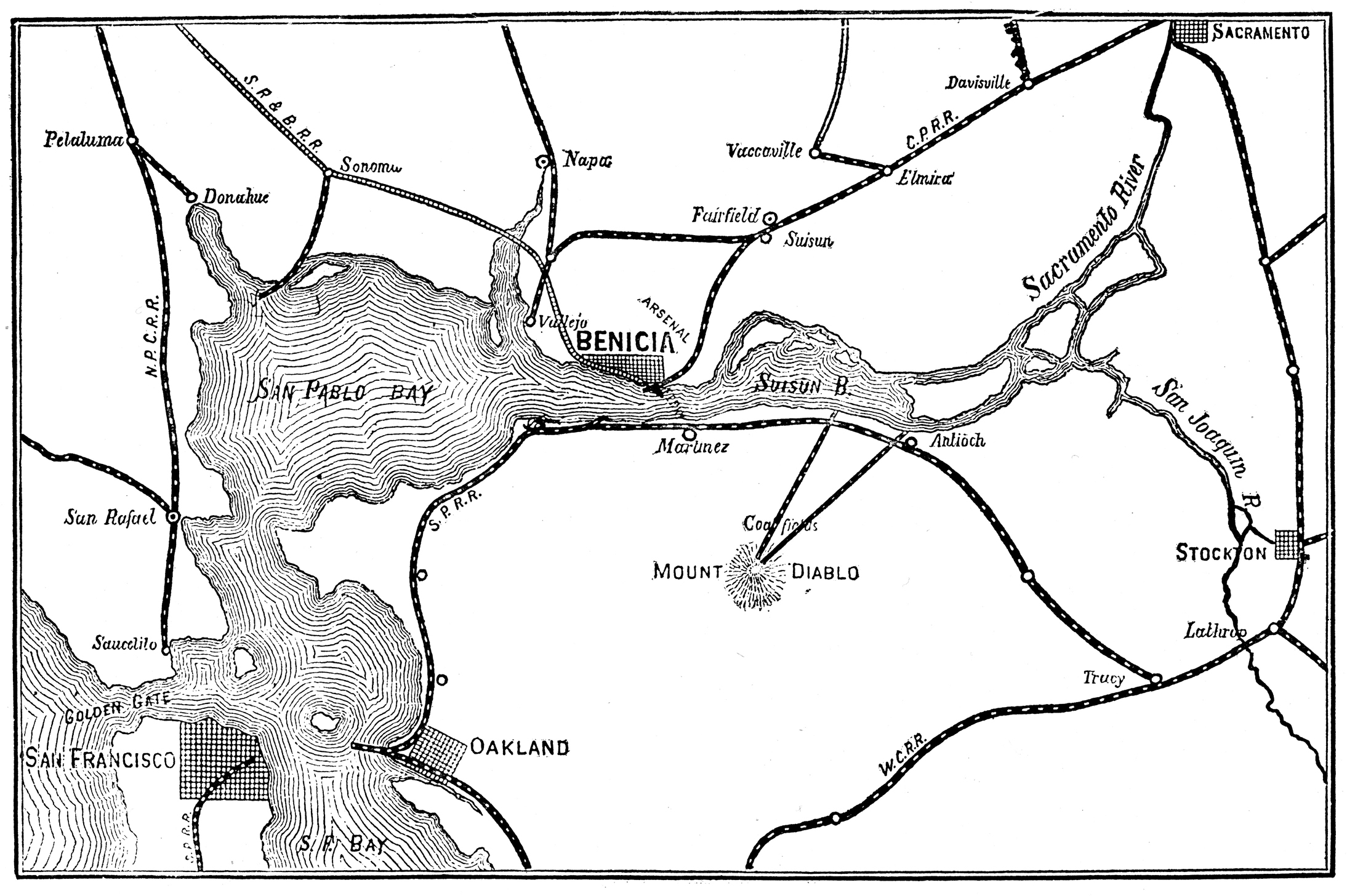 Railroad connections to Benicia, CA and the San Francisco Bay Area 1885